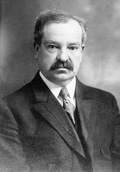 Arthur S. Tompkins, Congressman and Judge from New York